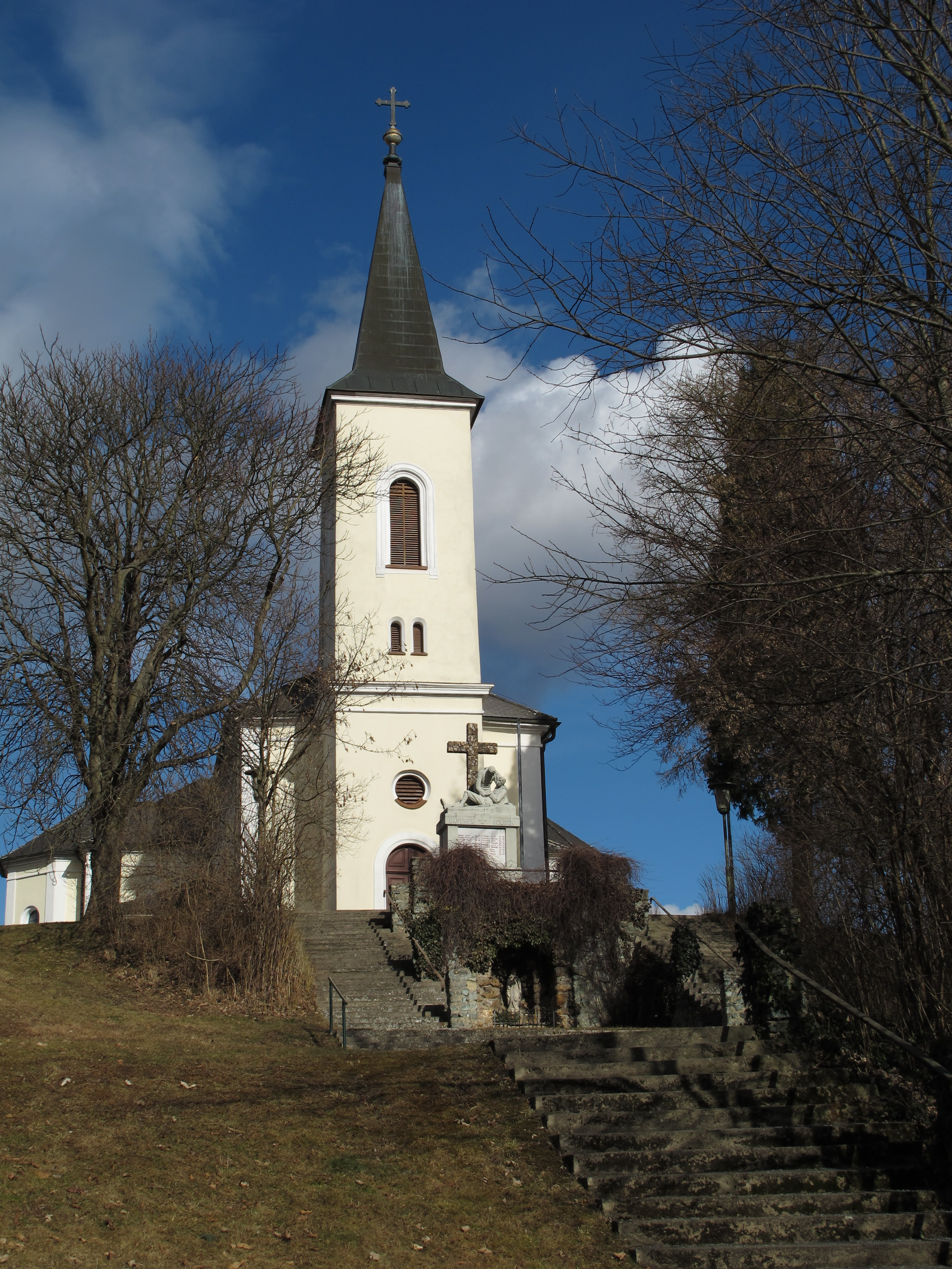 Pfarrkirche Kirchfidisch